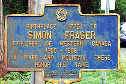 The historic marker placed in front of explorer Simon Fraser's birthplace home.